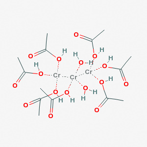 Molecular structure of chromium acetate hydroxide